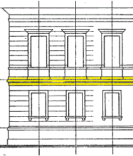 Horizontal band (тяга) on the building façade. Illustration form a 1904 book, highlighting is mine.